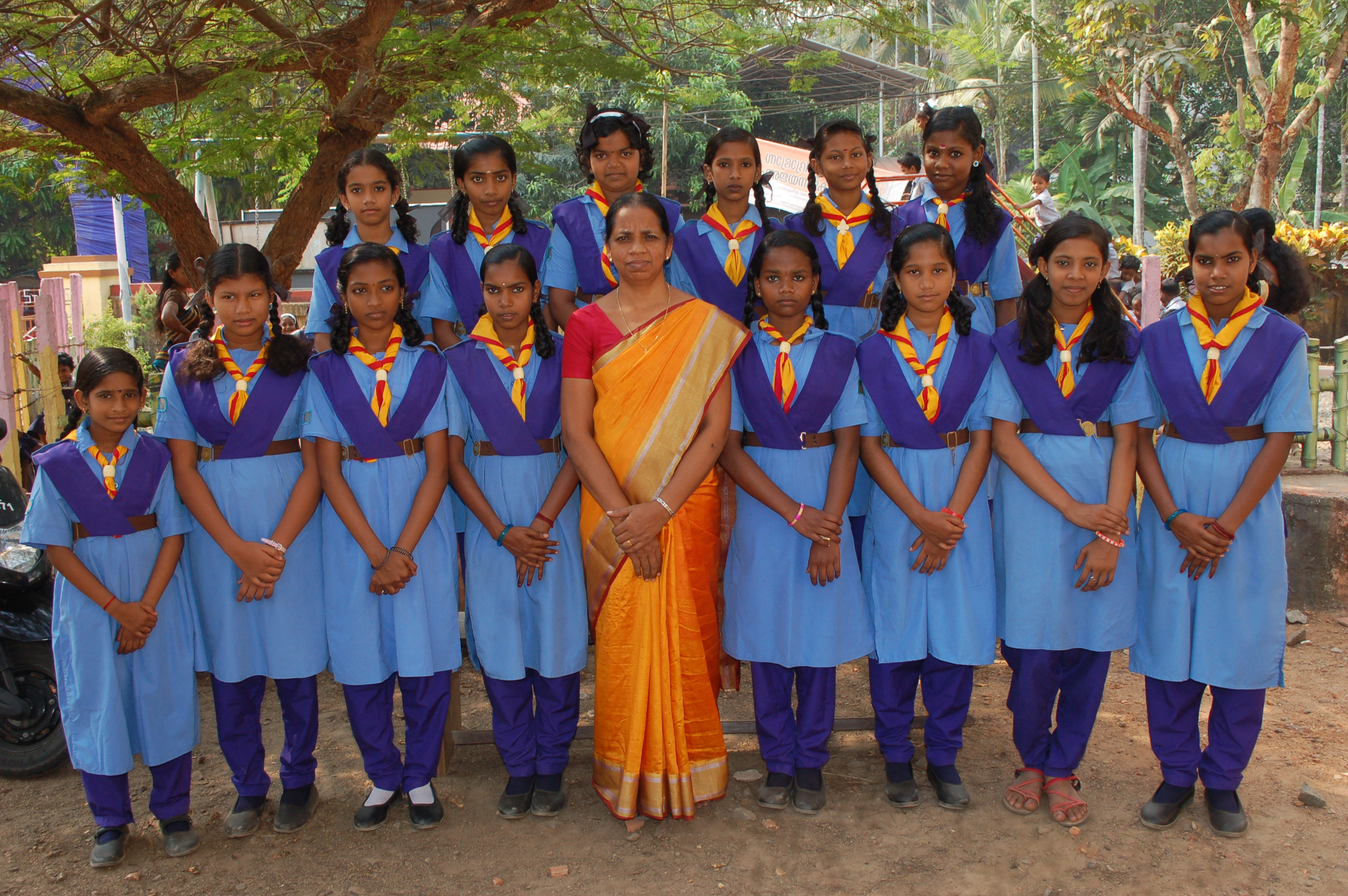 Group photo of Guides Unit of the school